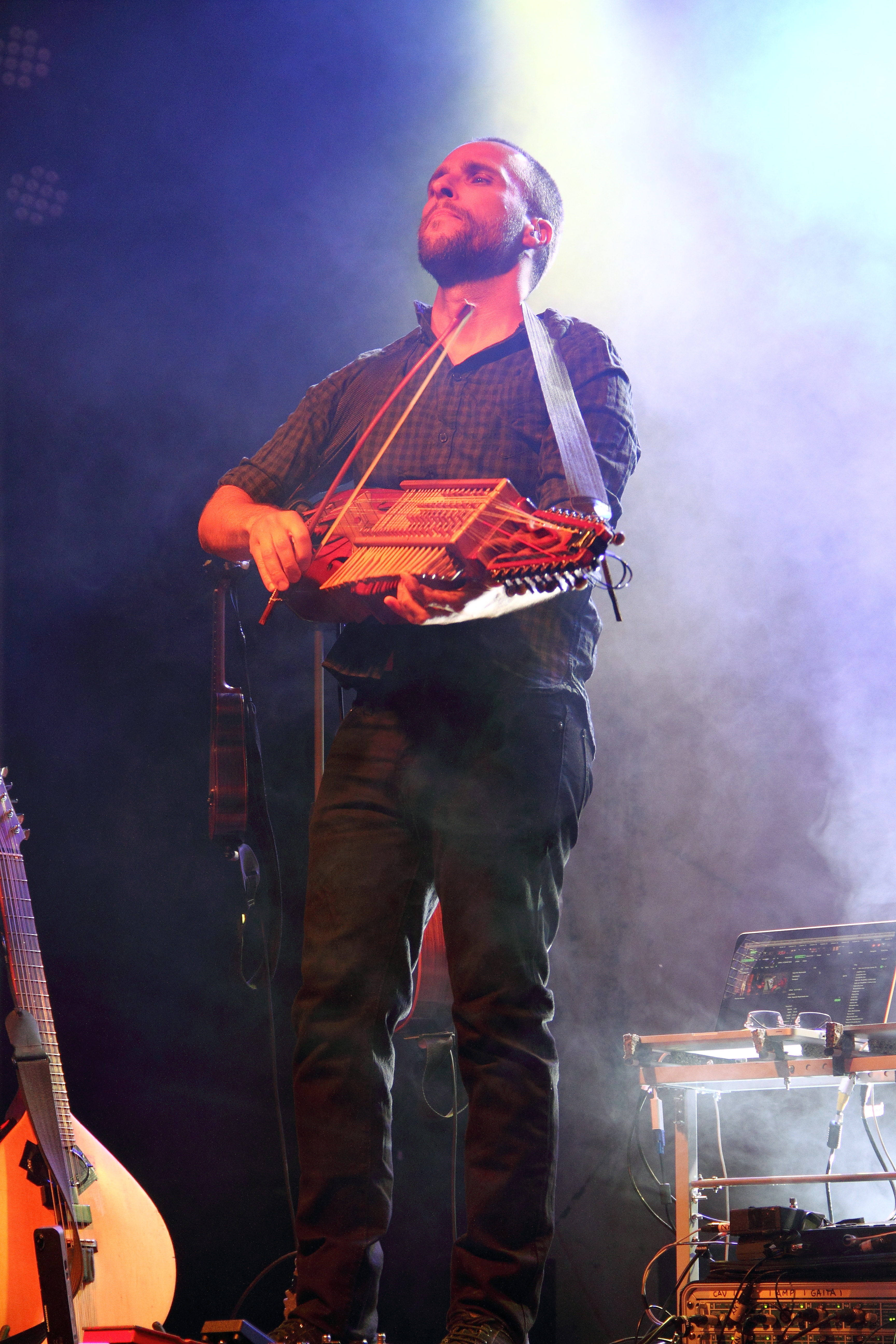 Omiri is the project of Vasco Ribeiro Casais. It´s a mix of folk music from Portugal with electronic sounds, videos and modern dance.